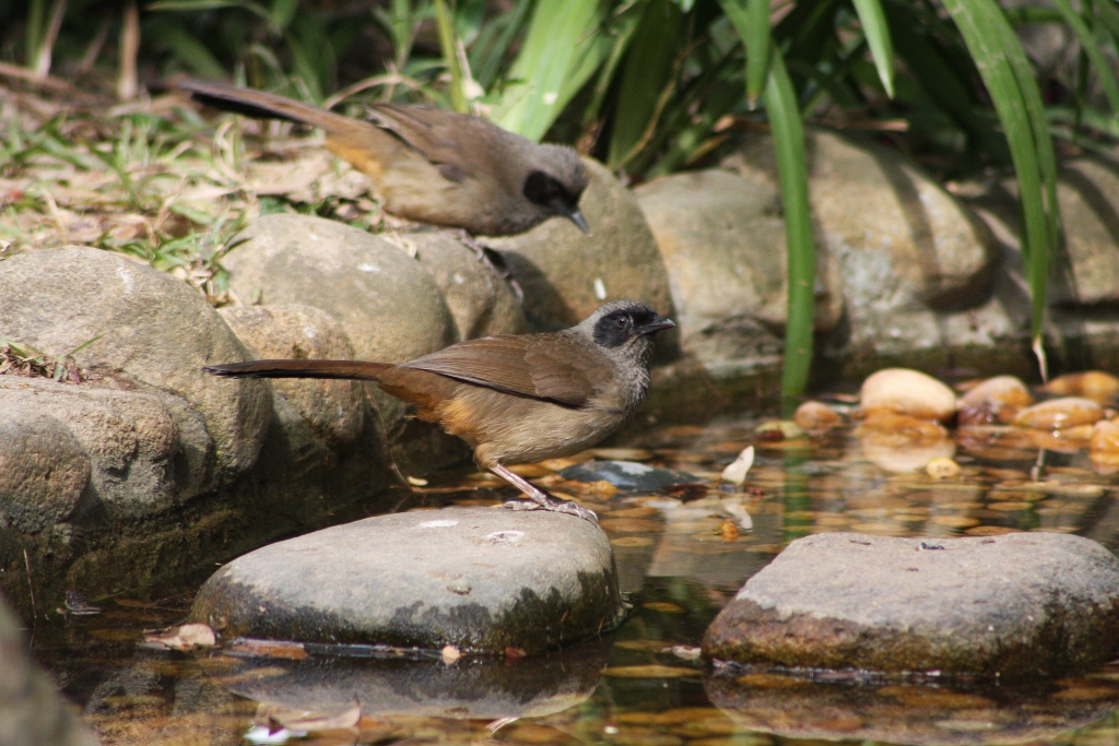 Taken in Hong Kong Zoological & Botanical Gardens.